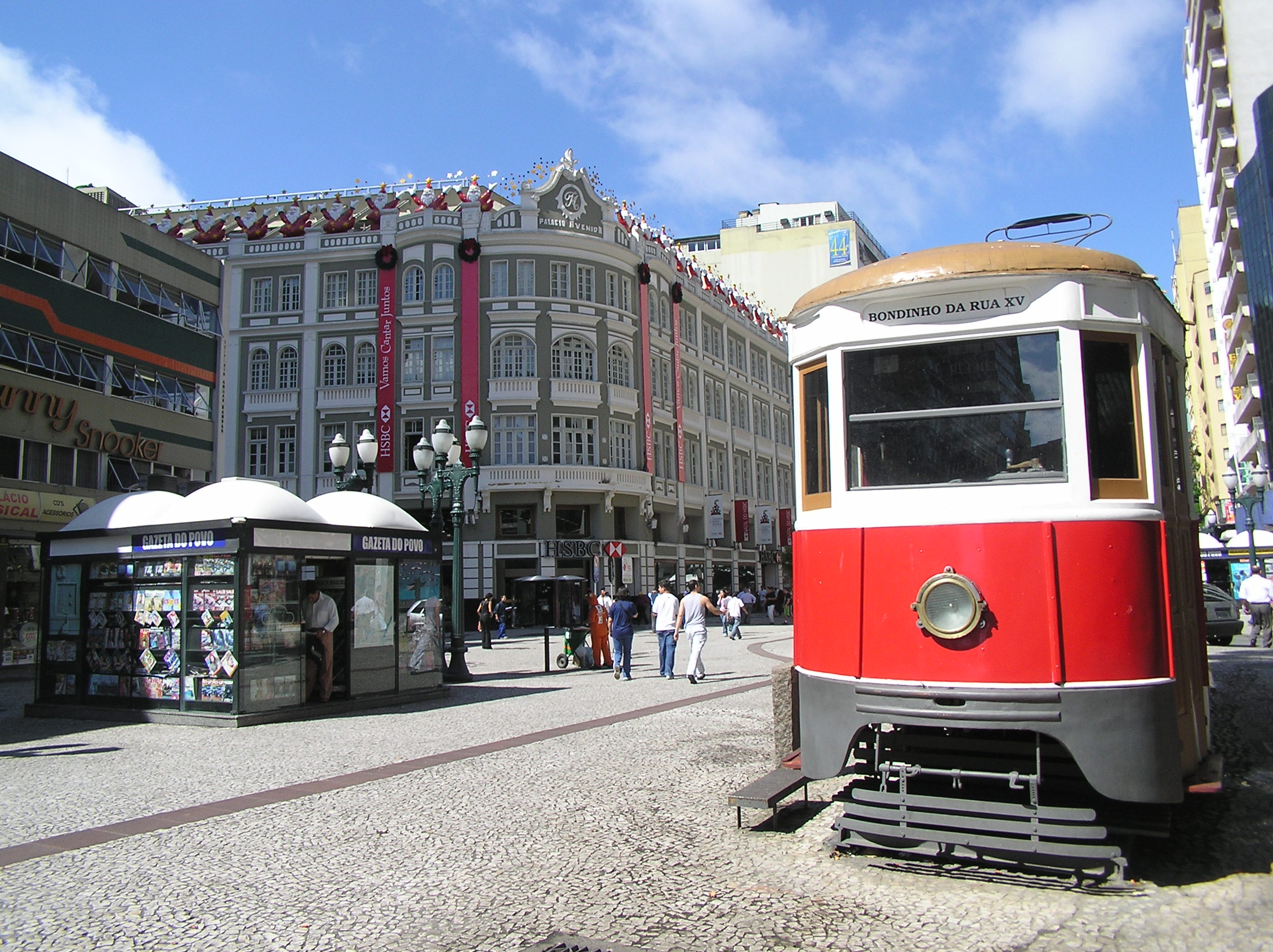 Palácio Avenida, HSBC. This building is on Avenida Luiz Xavier.